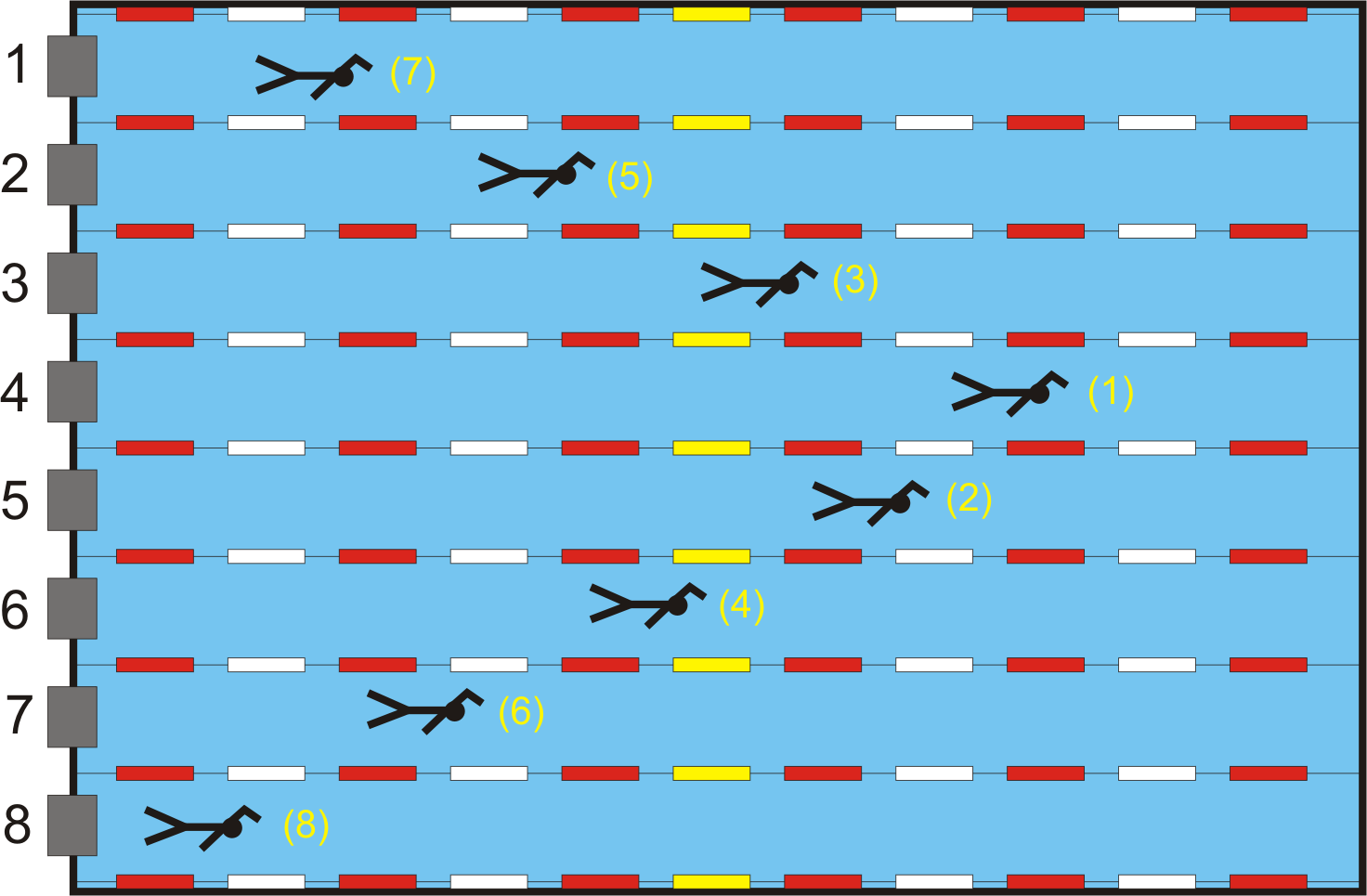 Swimming pool for competition. Seeding of heats